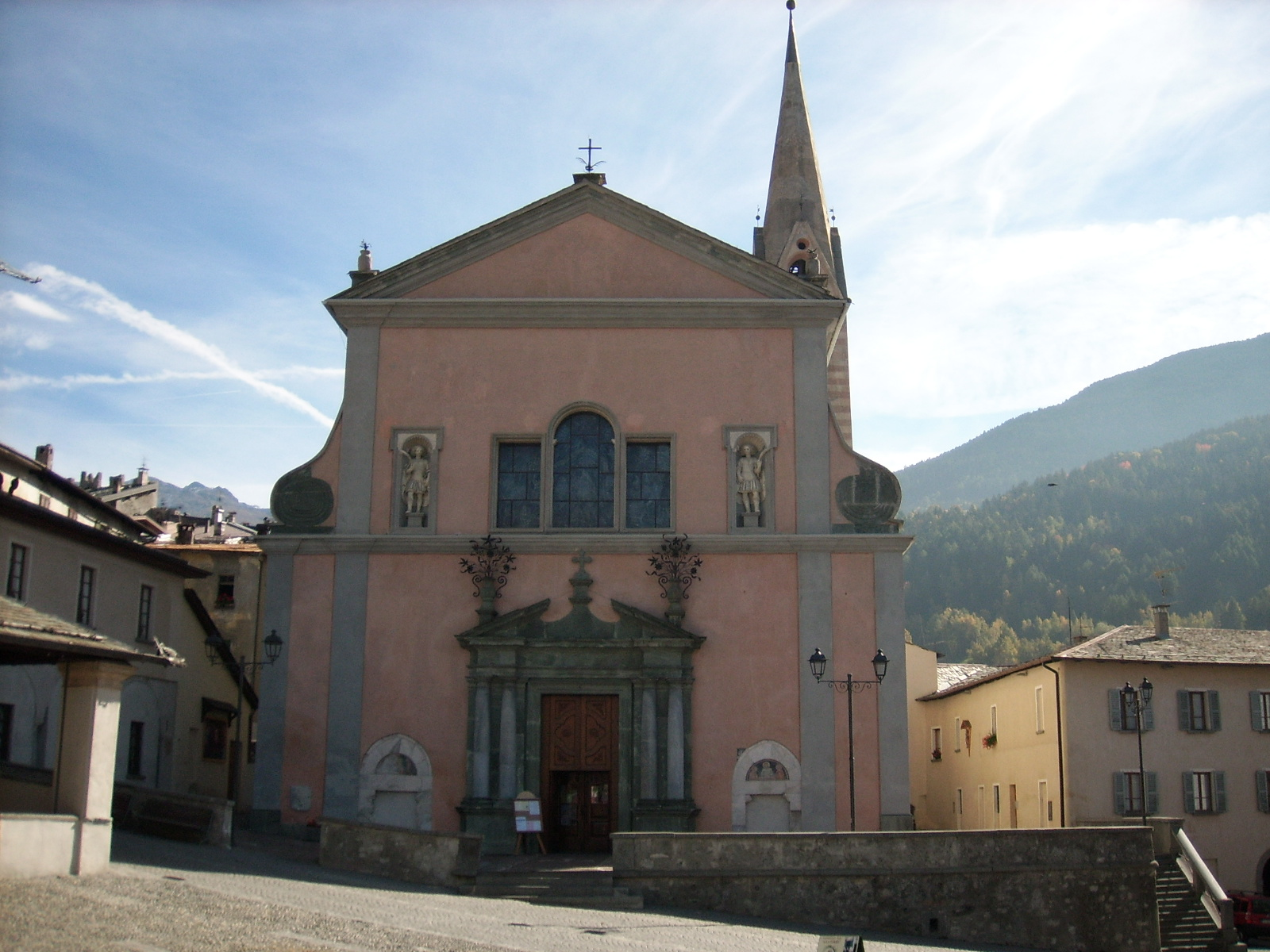 2=Collegiata Church, Bormio, Italy